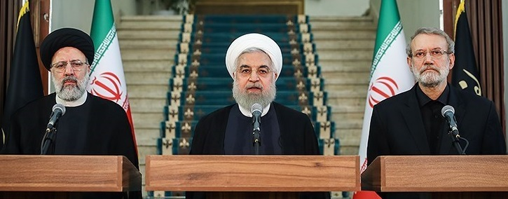 Chiefs of Powers